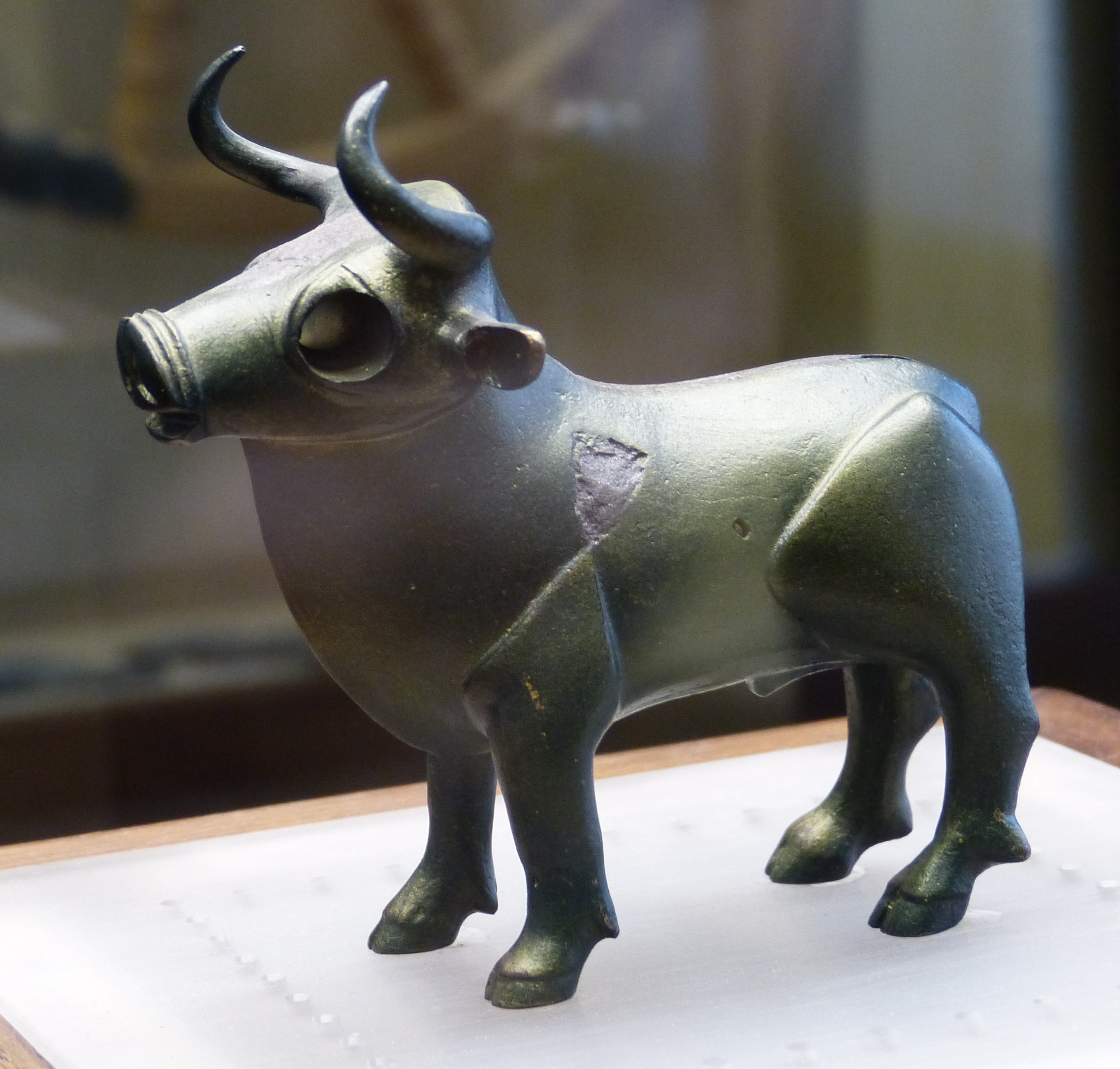 Natural History Museum, Vienna (Austria). Iron Age sculpture of a bull (5th century BC) from the cave of Býčí skála (Czech Republic)